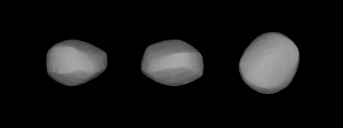 A three-dimensional model of 7 Iris that was computed using light curve inversion techniques.